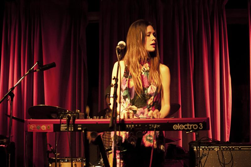 Lia Ices Performing Live at the Drake Underground Toronto, ON, Canada April 5, 2011